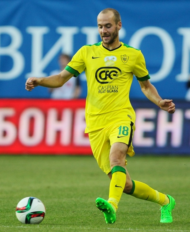 Ivan Maewski